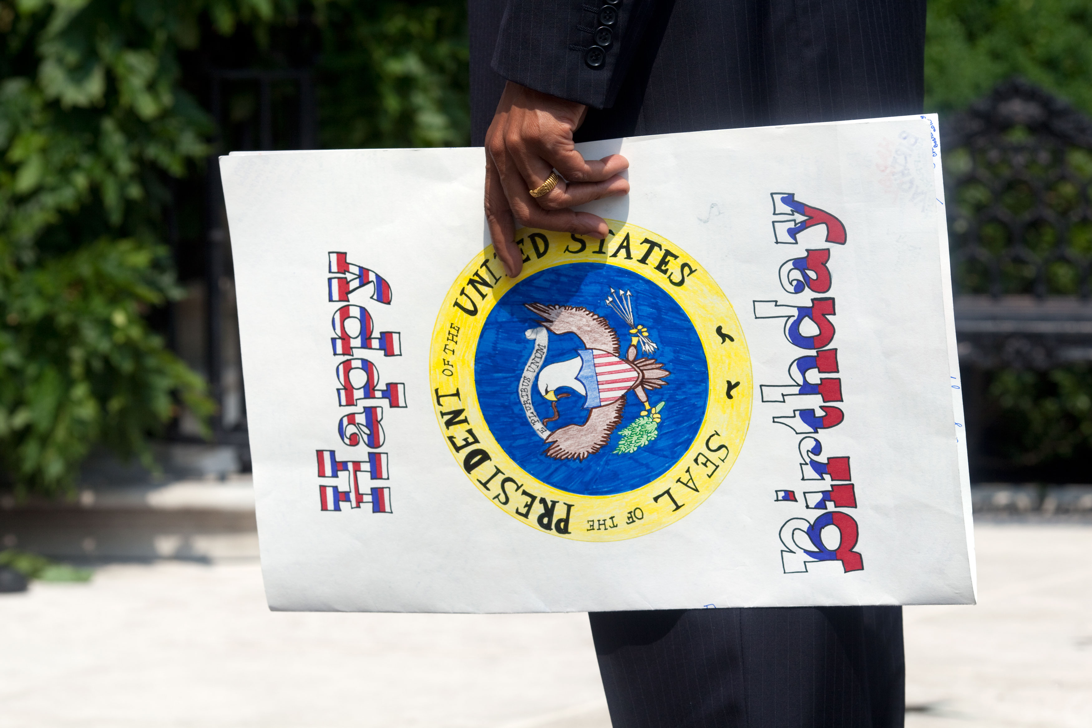 President Barack Obama holds the birthday card given to him during a group photo with interns on the South Portico of the White House, on Aug. 3, 2009. (Official White House Photo by Pete Souza)